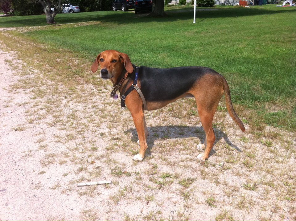 40lb Kerry Beagle mix, 18 months old